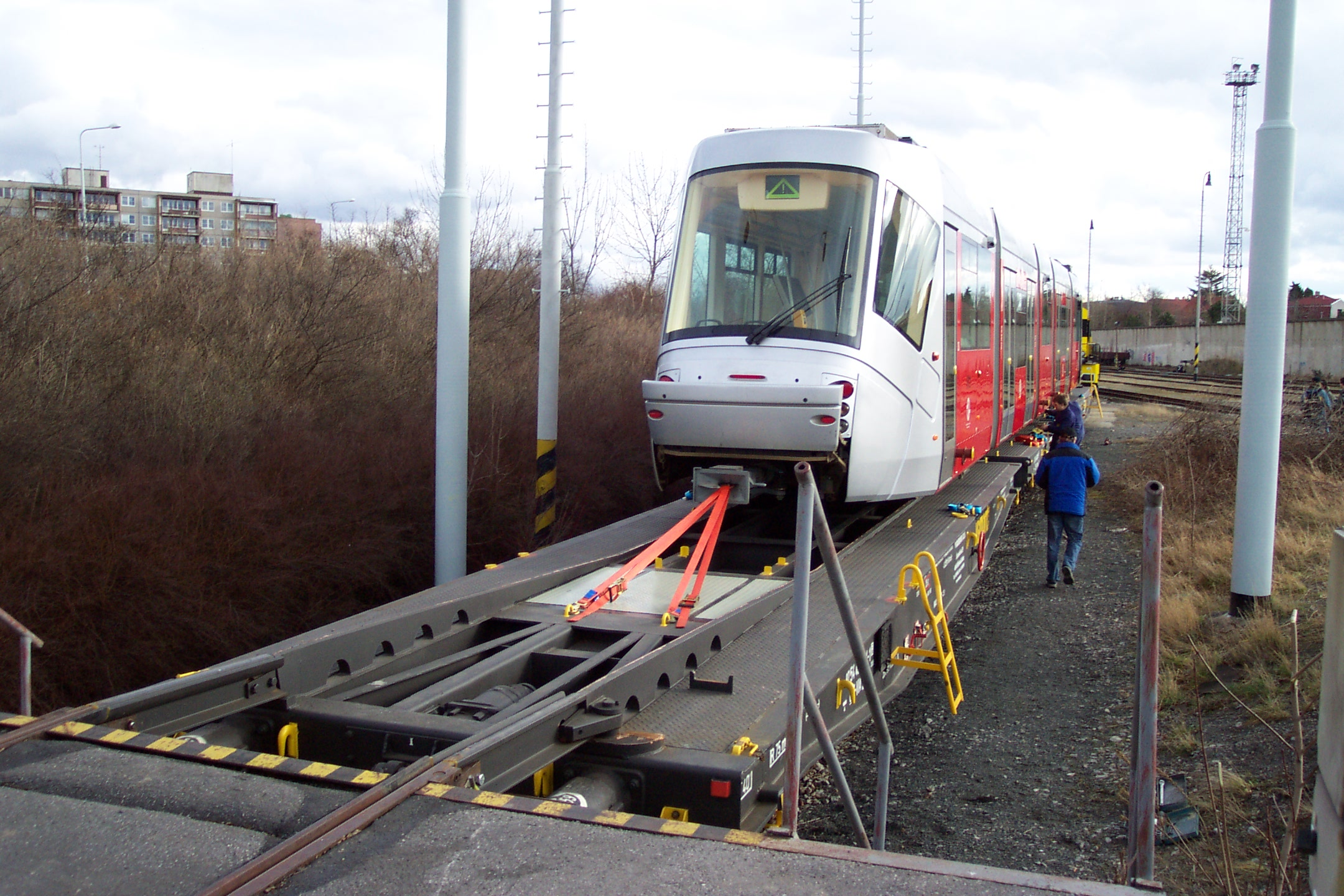 Loading the tram type Škoda 14T on the special rail car in Prague - Zličín